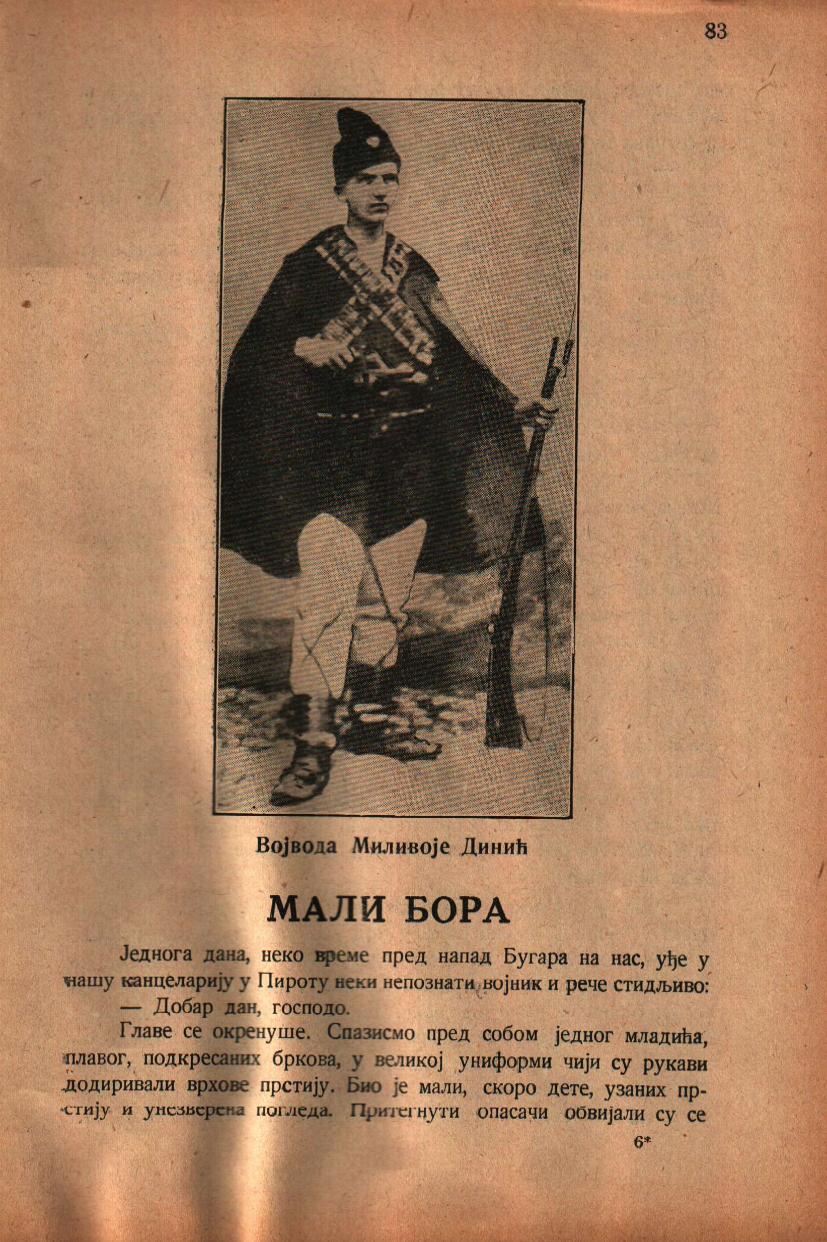 Voyvoda Vuk Popovich. 1927 calendar.